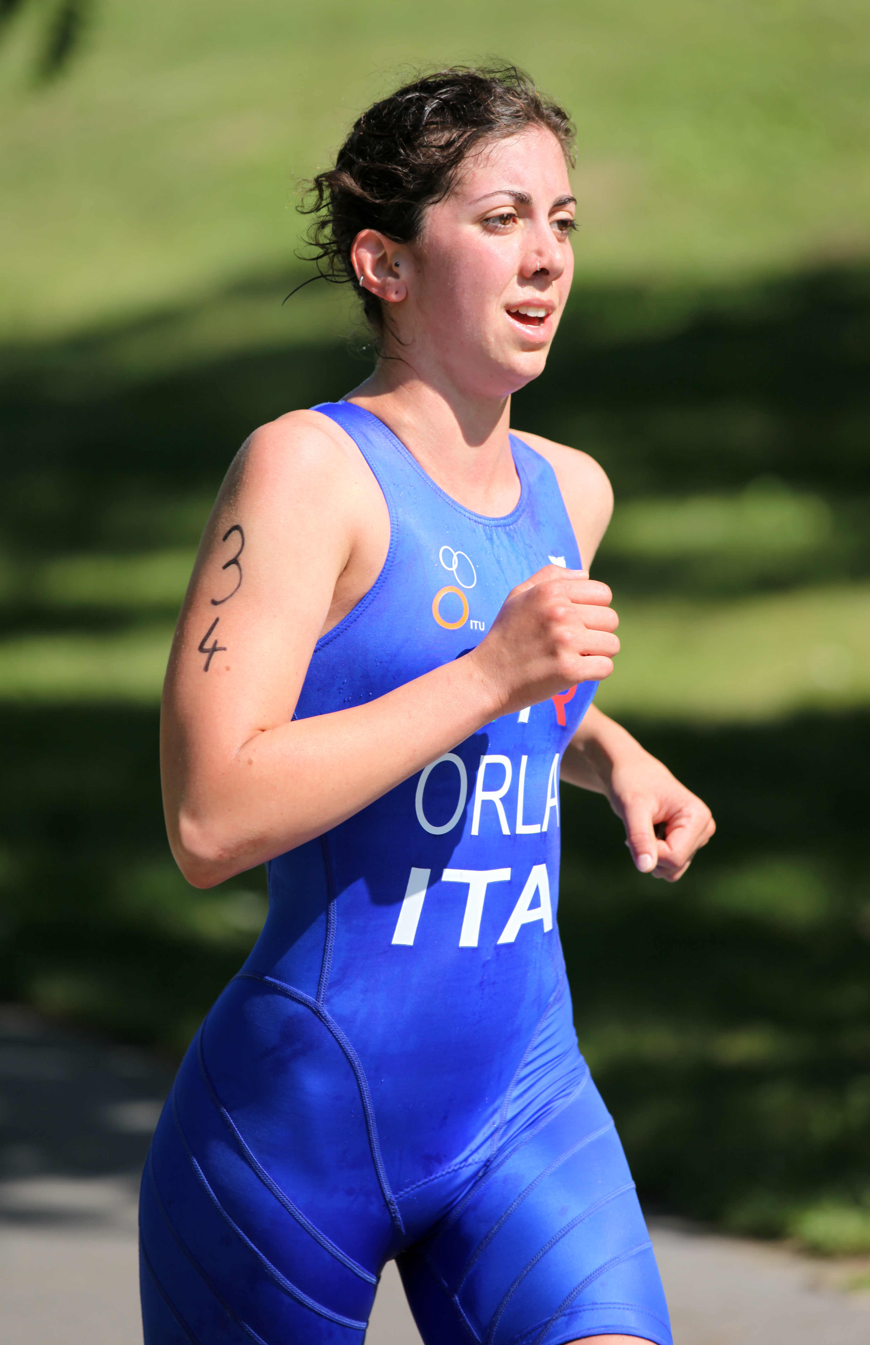 Alessia Orla at the European Cup triathlon in Vienna, 2011.